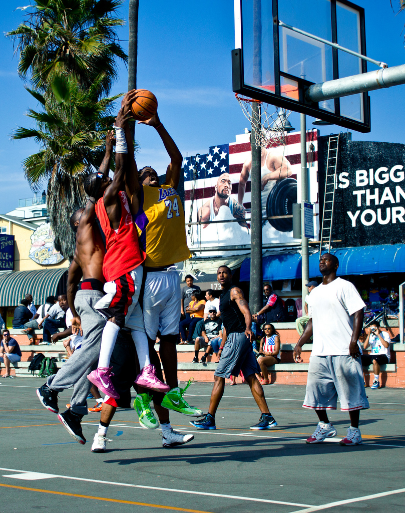 A group plays basketball at the Venice Beach Recreation Area